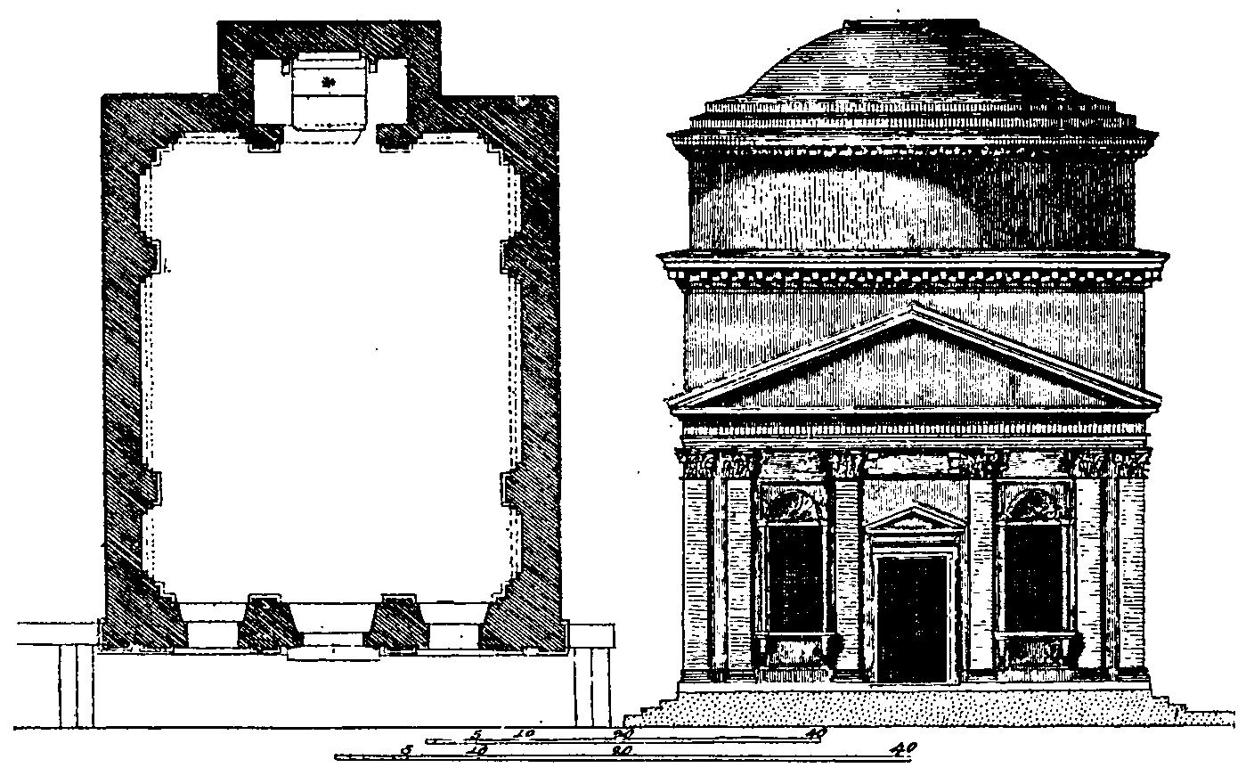 Detail (Figure 17) from page 73 of Palustre's L’Architecture de la Renaissance, 1892